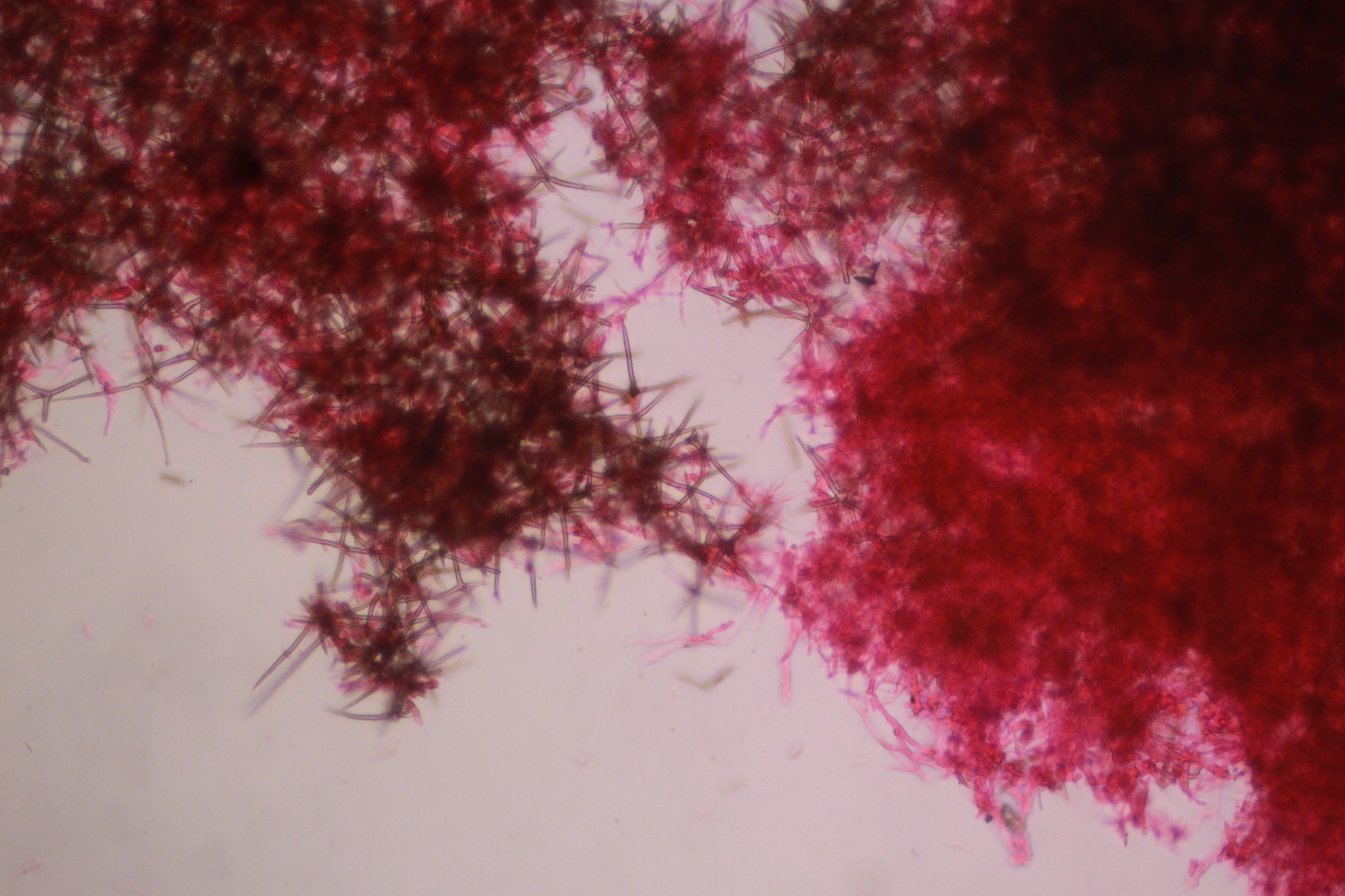 Asterostroma cervicolor Image location: Ann Arbor, Michigan, USA Found under the bathroom floor boards of a rented house by Gavin Taylor and mailed to John Taylor. Did not see many spores, but the ones I did see were a bit small for the species ~3-4 um, and were tuberculate. Used references: Lachnocladiaceae and Coniophoraceae of Northern Europe Based on microscopic features: Presence of asterosetae for the genus, small tuberculate spores for the species For more information about this, see the observation page at Mushroom Observer.